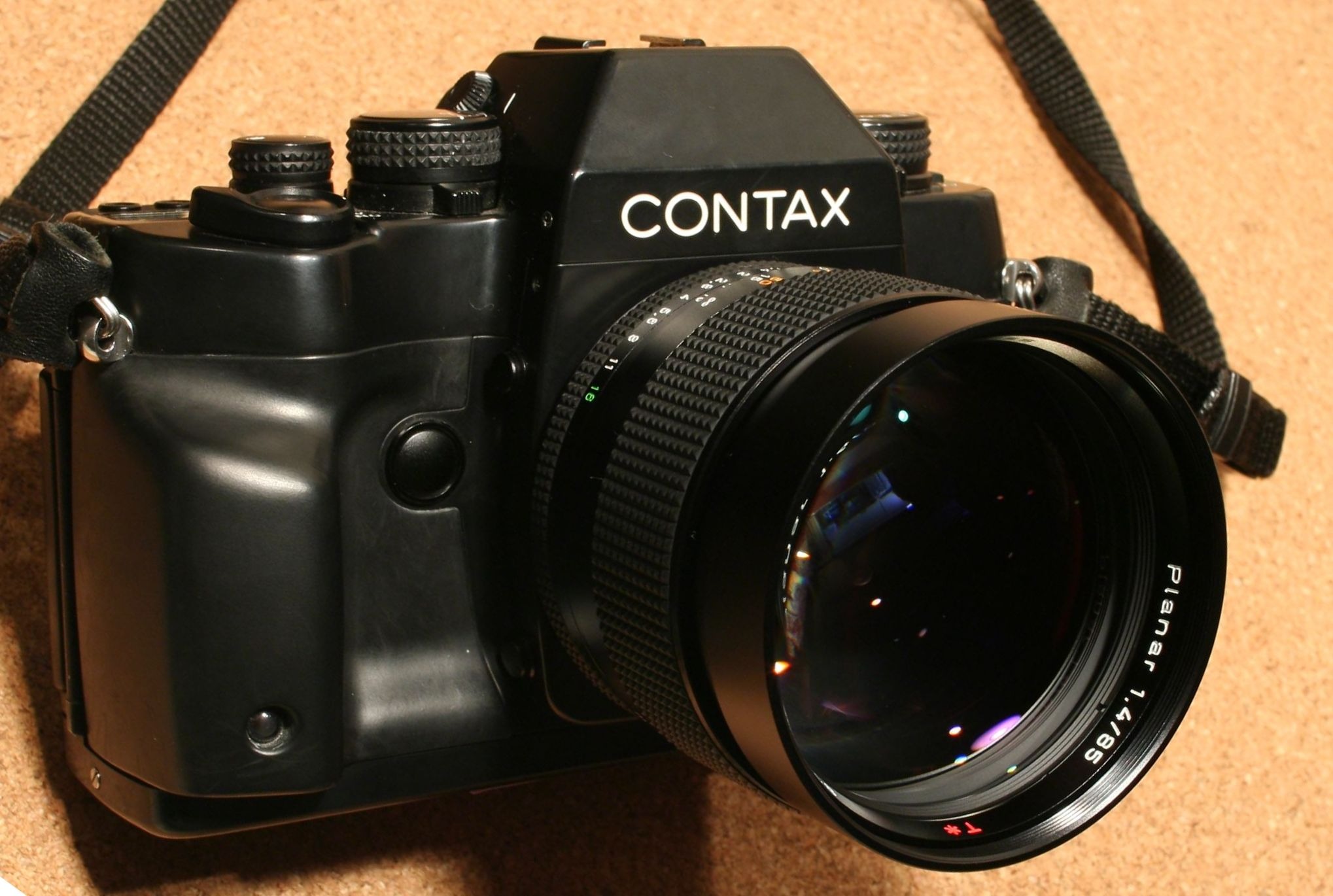 Contax RX 35mm SLR camera with Carl Zeiss Planar 1,4/85mm lens